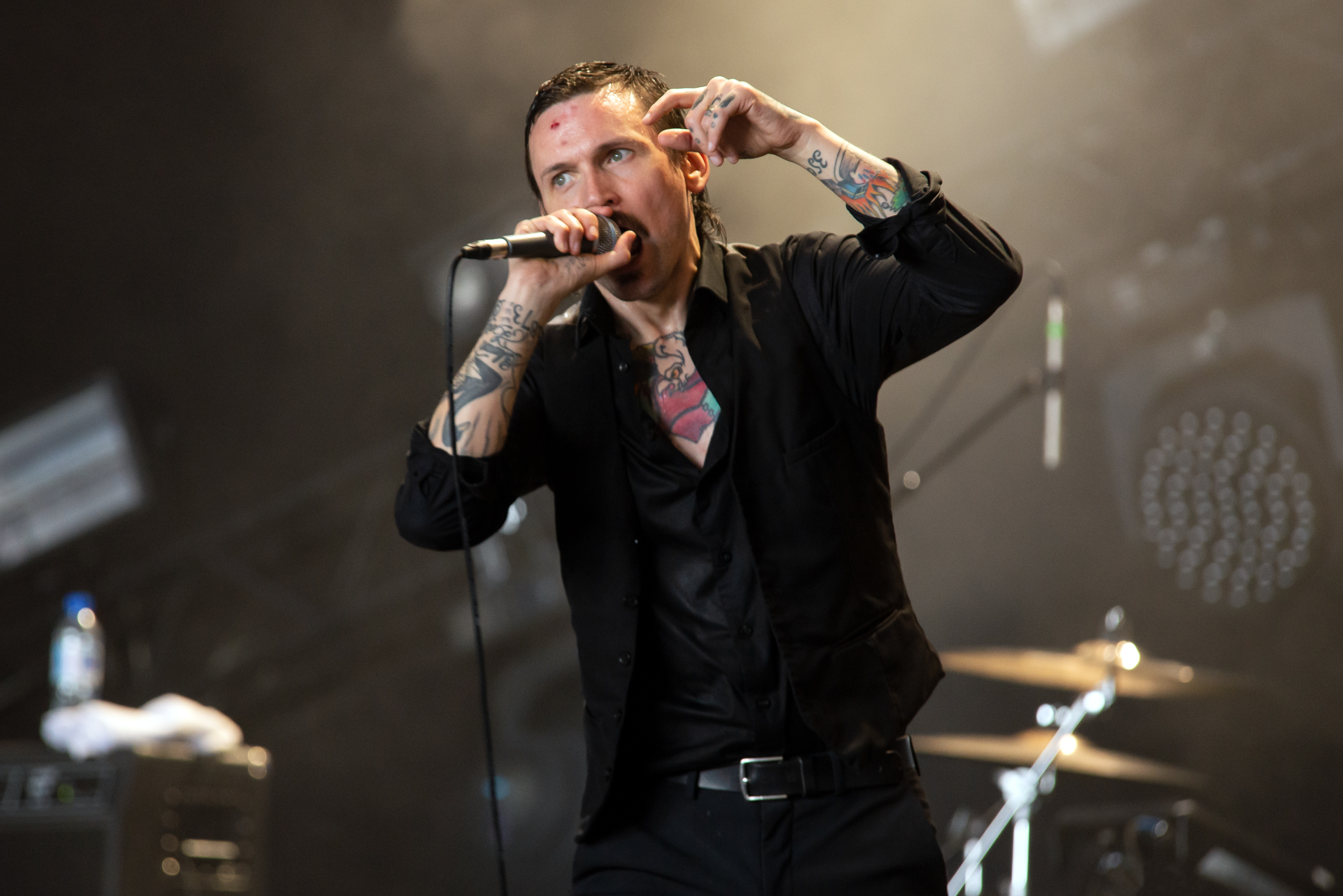 Daughters set at 2019 Hellfest, Clisson, France.